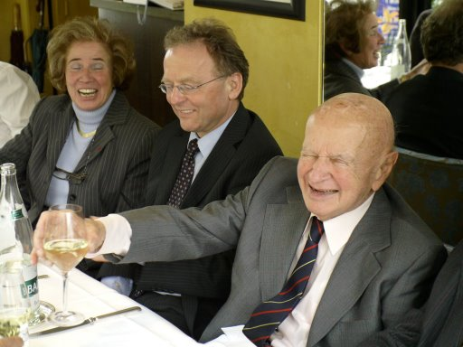 Beate Klarsfeld, Andreas Maislinger and Jean Serog in Paris